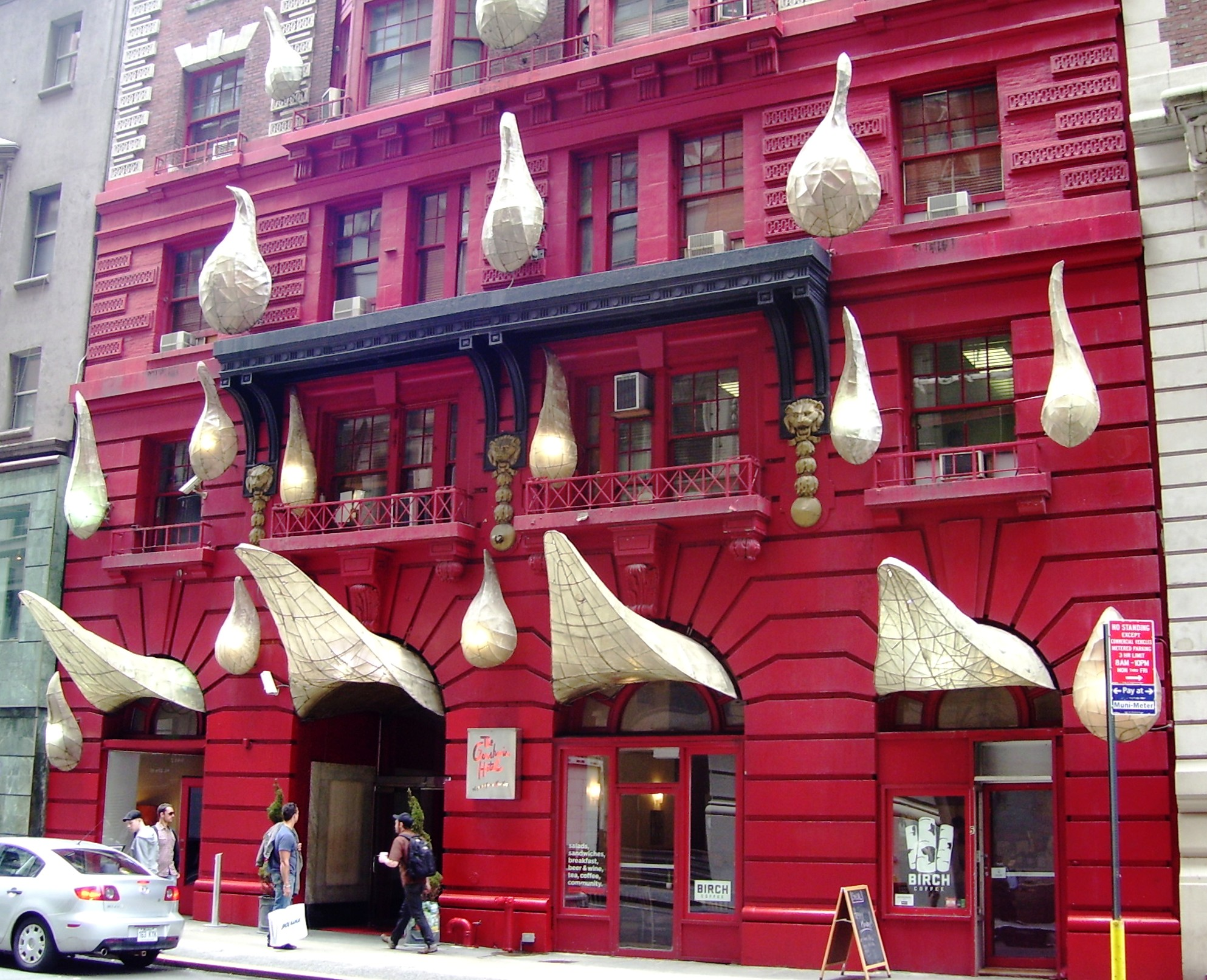 The Gershwin Hotel at 7 East 27th Street between Fifth and Madison Avenues in the NoMad neighborhood of Manhattan, New York City was built in 1903-05, and designed by William H. Birkmire in Beaux Arts style. The building, which has 12 stories and a penthouse, was originally intended to be an apartment building, but its function was changed before the building was completed. It was at first called the Brotzell Hotel, and later was part of the Latham Hotel. The Gershwin, named after composer George Gershwin, features contemporary artworks in its public areas, including Finnish artist Stefan Lindfors' "Tongues and Flames" on the hotel's facade. It is located within the Madison Square North Historic District. (Sources: NYCLPC Madison Square North Historic District Designation Report and "27th Street Songlines")